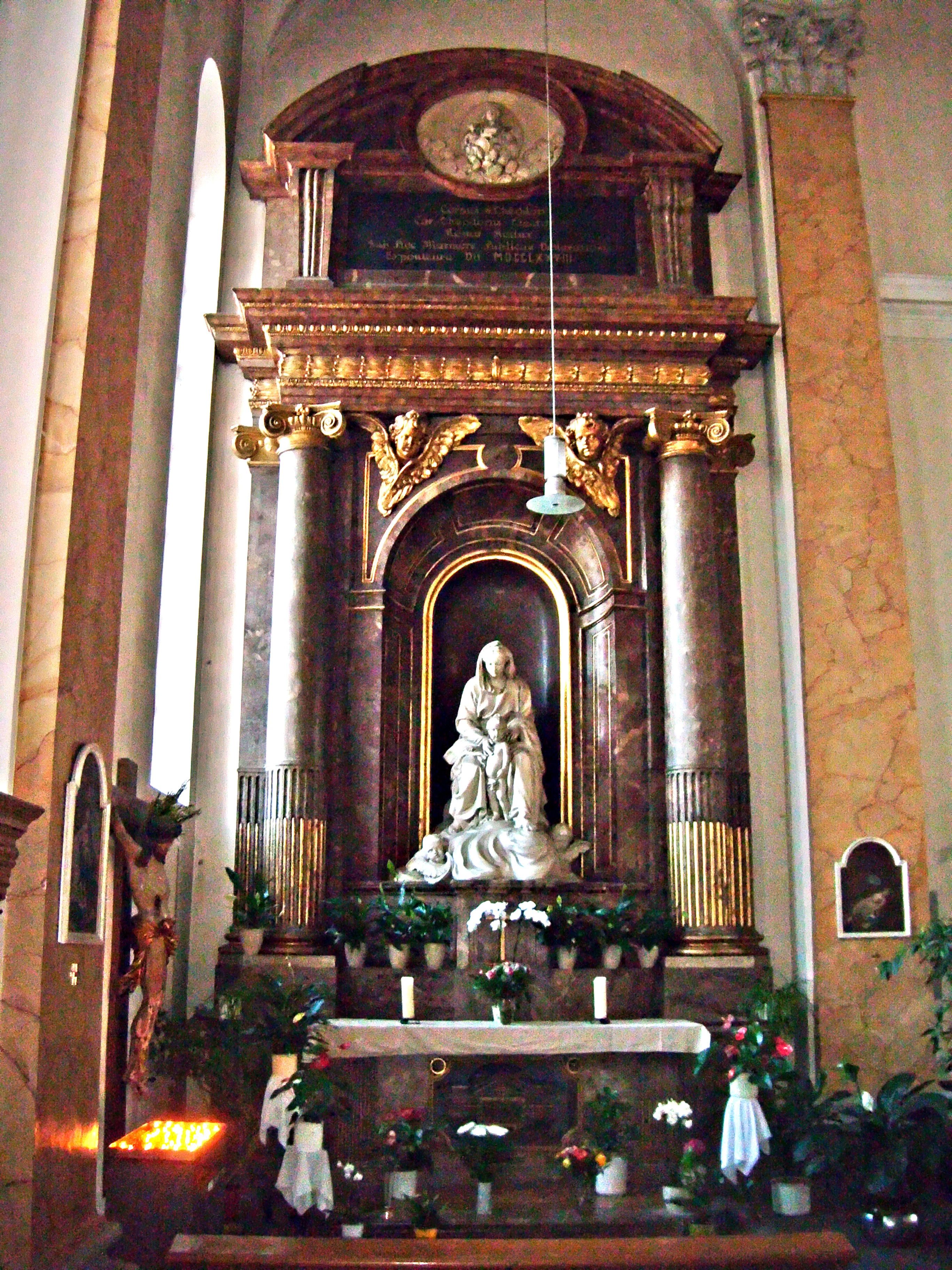 Theodor-Reliquienaltar, St. Sebastian, Mannheim